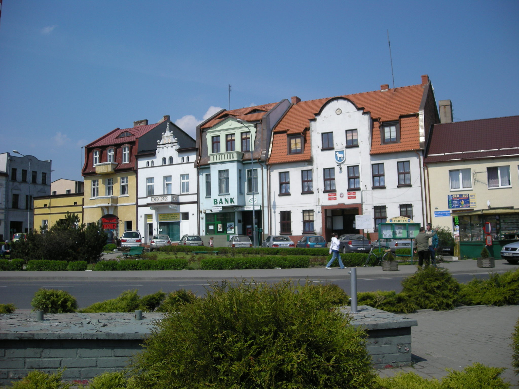 The main square in Mrocza, Poland.